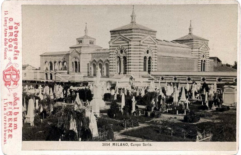 Giacomo Brogi (1822-1881) - "Milan. Interior of the Cathedral" (Actually, the "Cimitero Monumentale". Catalogue # 3894.